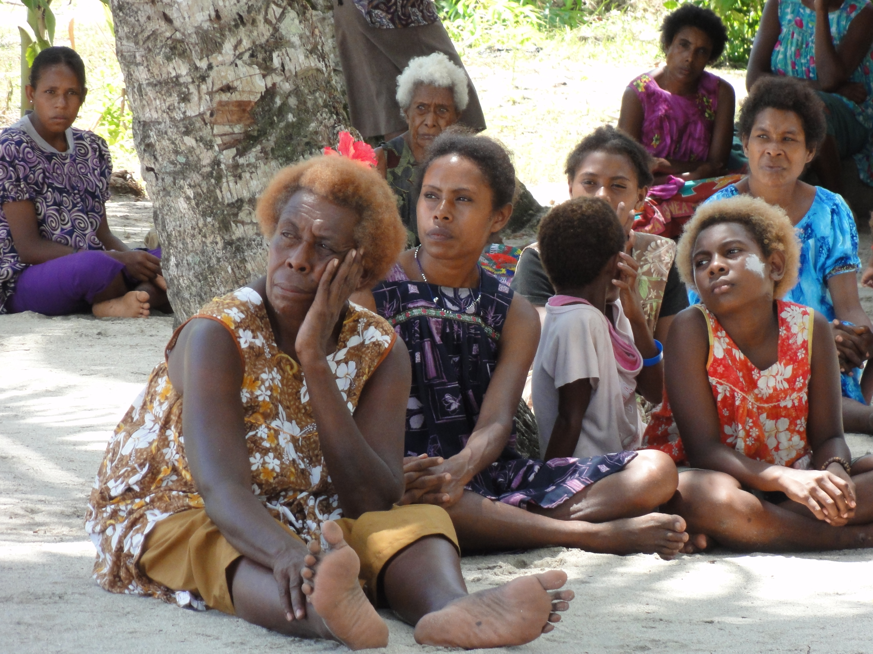 Learn more about Papua New Guinea on eGuide Travel where we did a review. A country of a million journeys and not a place with many tourists.